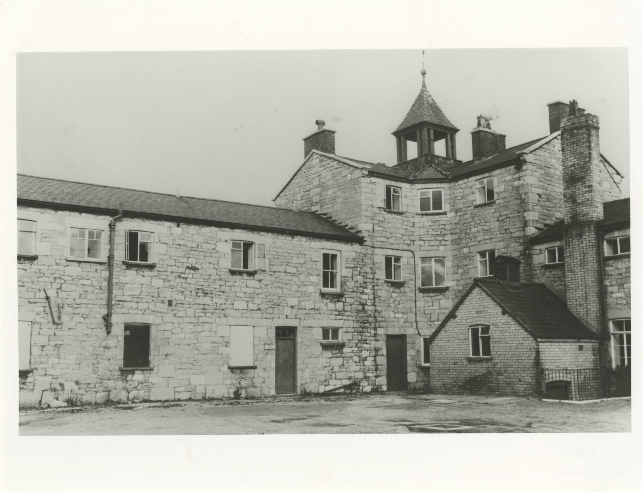 Ruthin Workhouse. Inner ward viewed from the south showing master’s and matron’s quarters, inmates accommodation and boiler room; c. 1965.